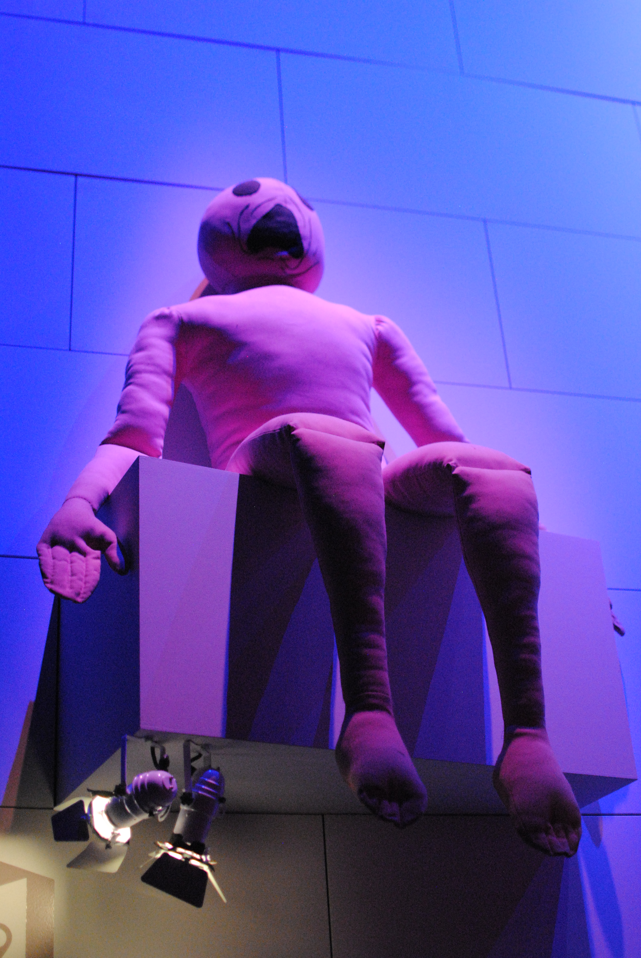 displayed at the Pink Floyd: Their Mortal Remains exhibition at the Victoria and Albert Museum.